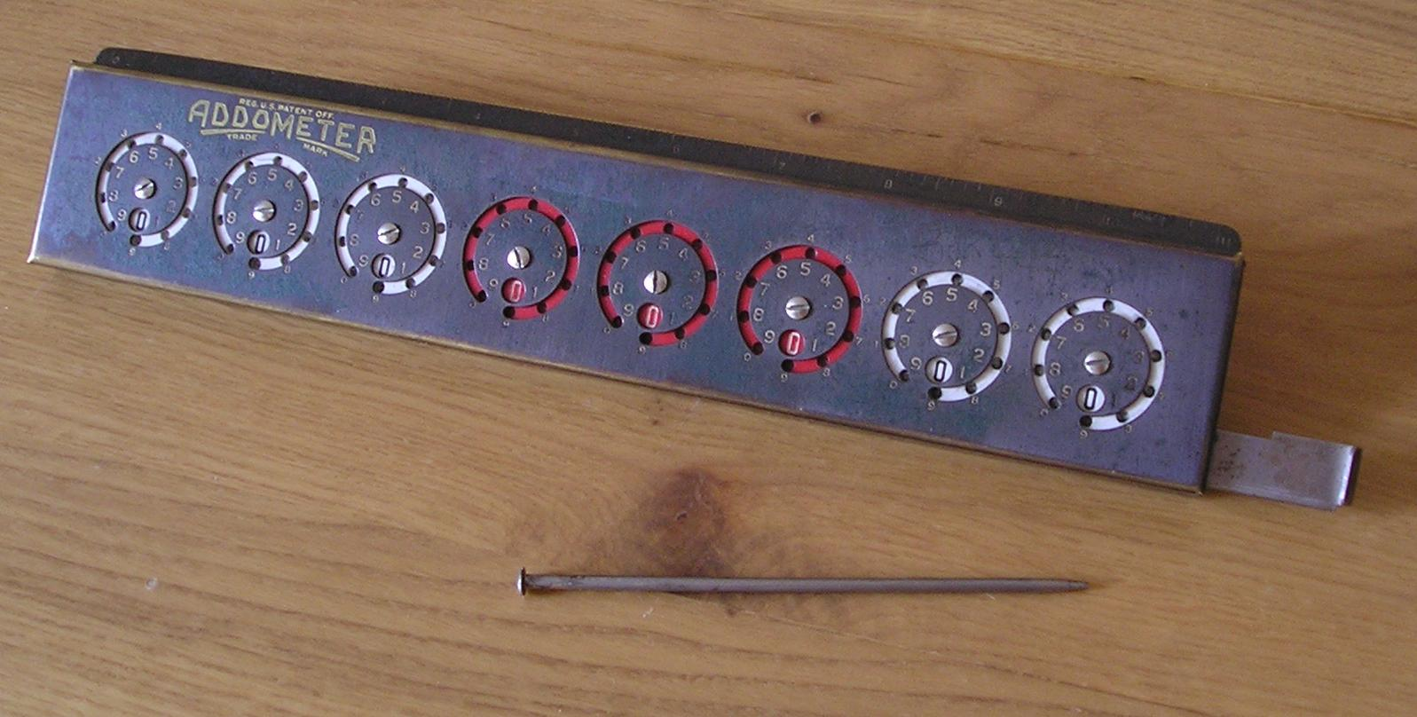 Addometer model B. small adder patented in 1928 by Reliable Typewriter & Adding Machines Co (Chicago)